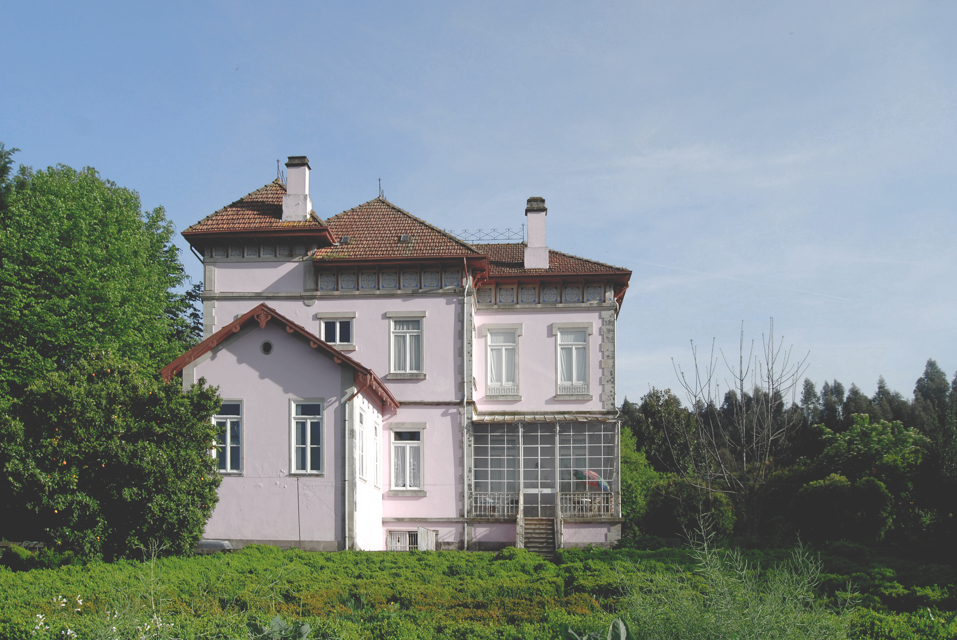 Manner House of the Viscount of Cantim